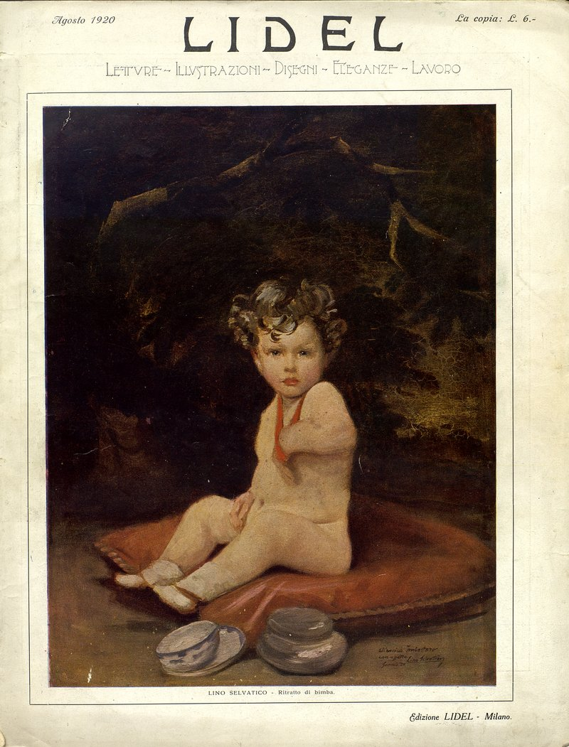 Cover of issue n.8 1920 (August) of «Lidel», Italian magazine on female fashion. The cover includes a picture of the Italian painter Lino Selvatico, Ritratto di bimba